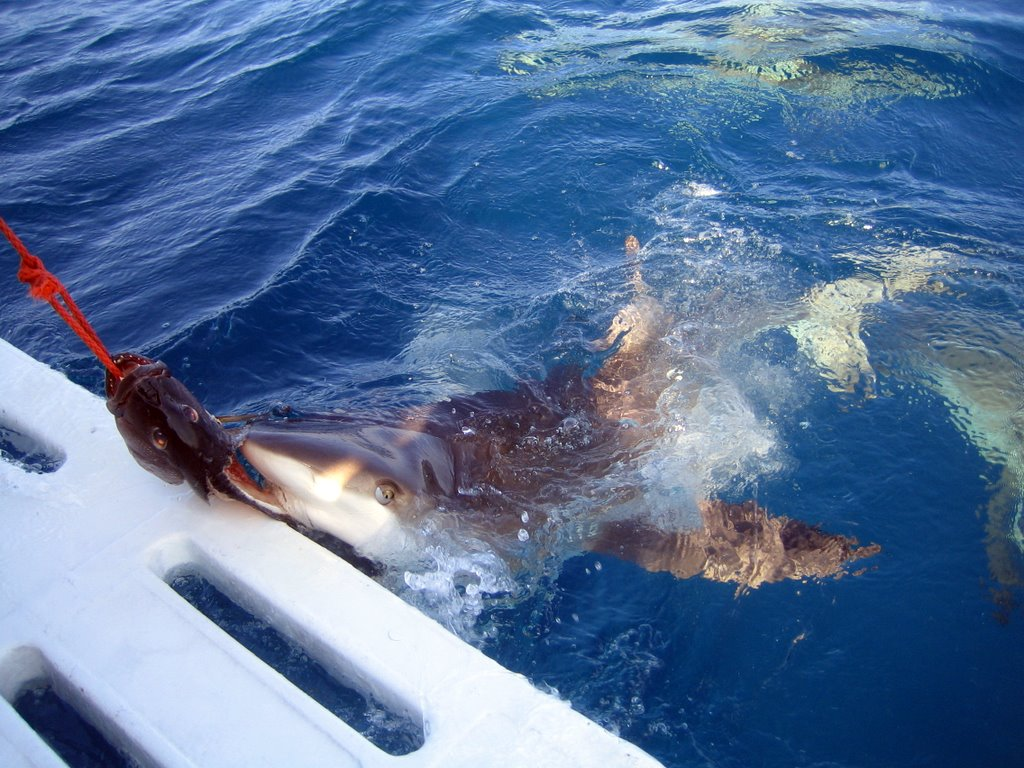 Caribbean reef sharks feeding